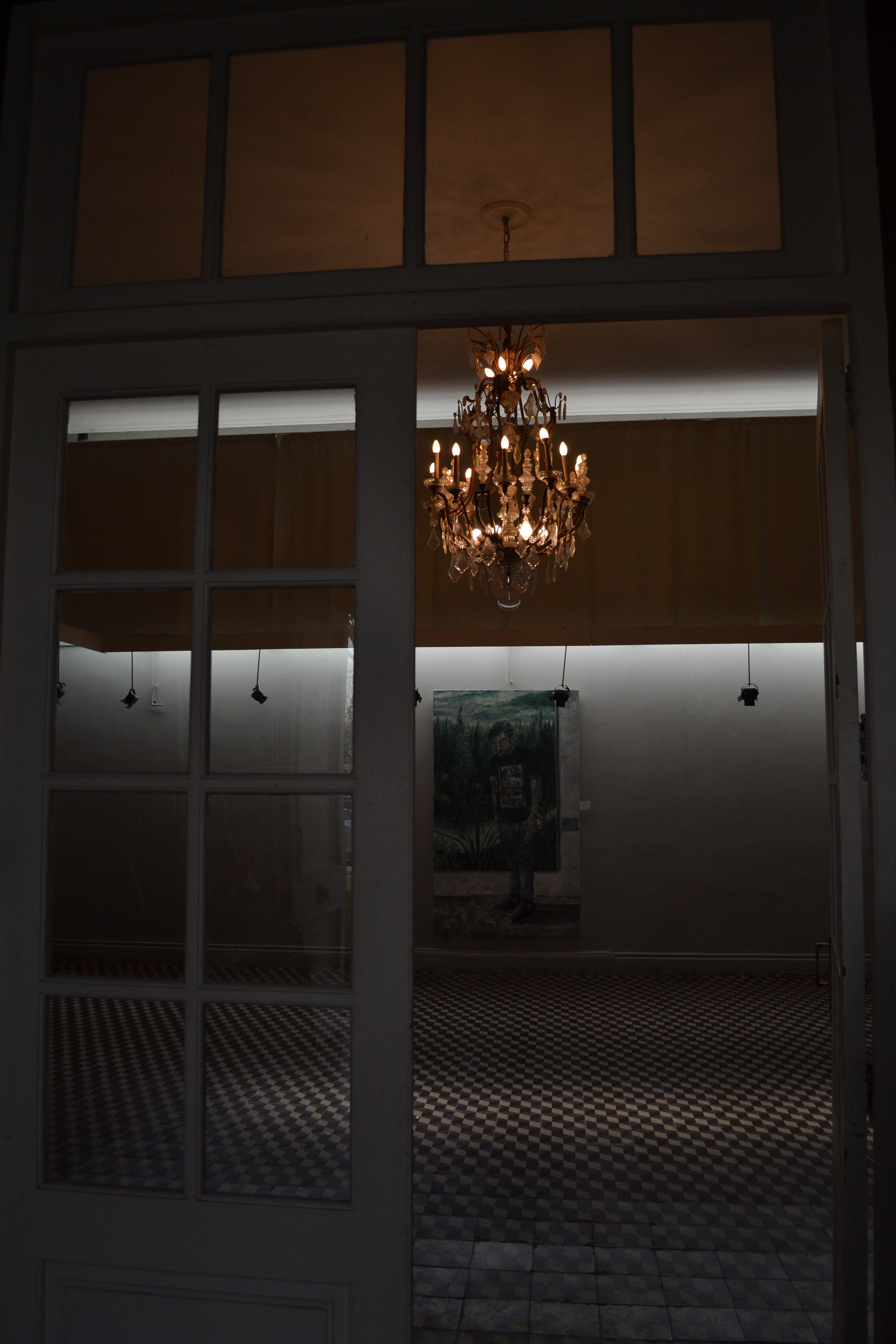 Hall Museo Pompeo Boggio